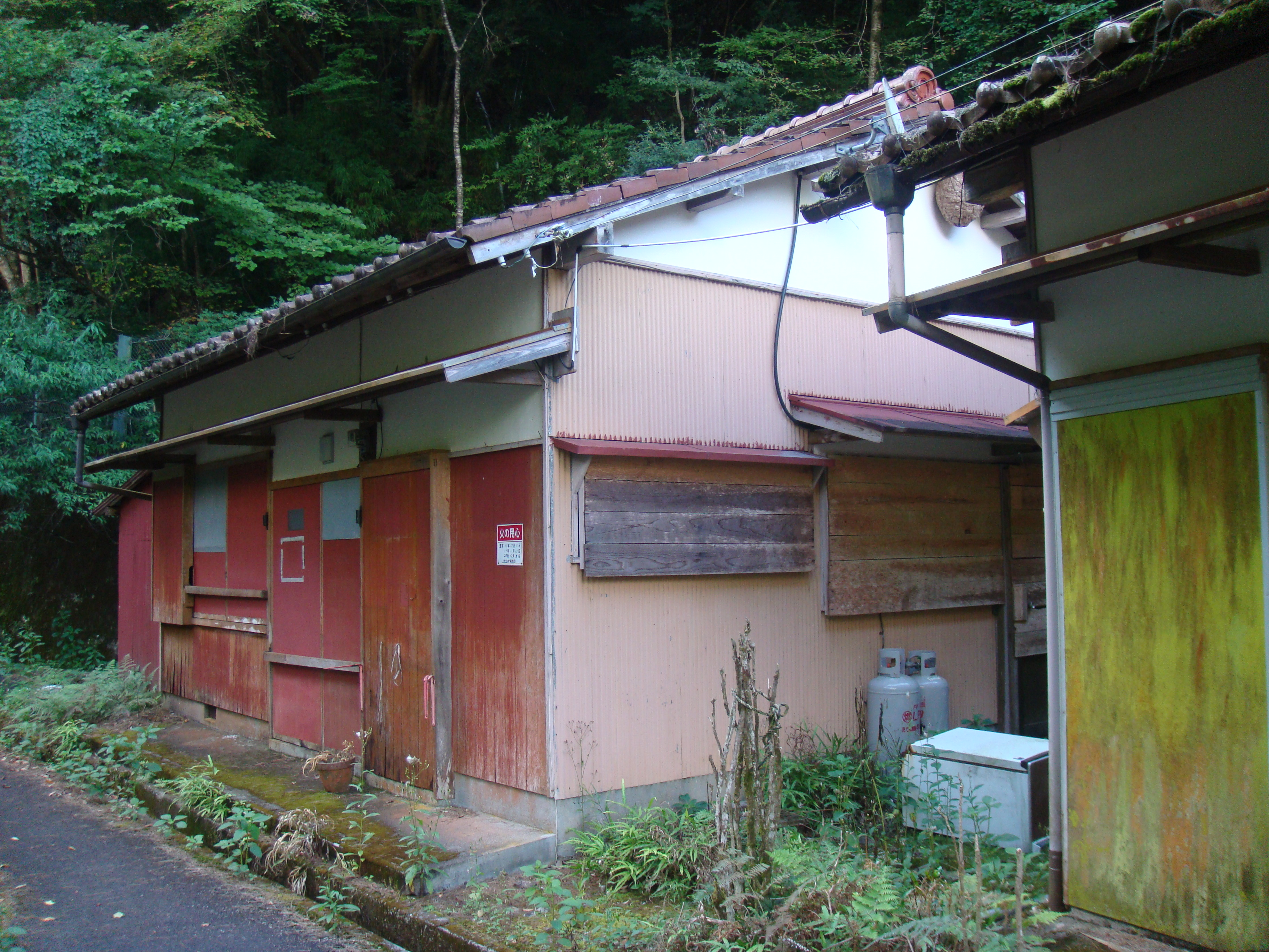 Higashinokawa Post Office Ruins Place - Nishihara,Kamikitayama Villege,Yoshino County,Nara Prefecture,Japan Date - September 22, 2010 Format - JPEG, 3648x2736pixel, 24bit colors Photographer - NALA Wiki (talk)